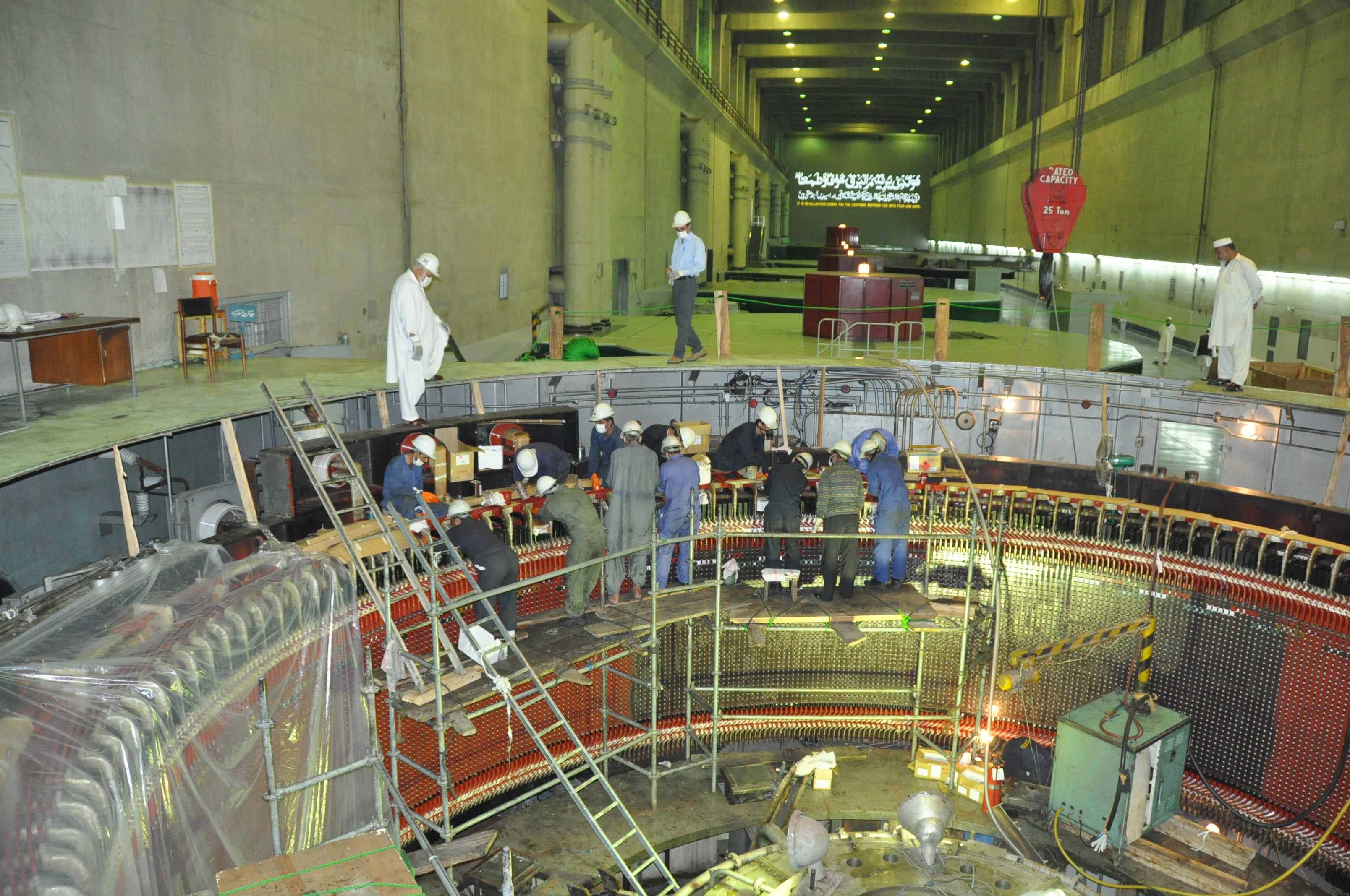 As part of the U.S. government's long-term commitment to improve energy supply in the country, USAID is supporting the completion of several high-impact energy sector projects in Pakistan. USAID is modernizing three generators in Tarbela Dam. In addition, we are helping construct Satpara Dam, providing support to Gomal Zam Dam, and upgrading the thermal plants at Jamshoro, Guddu, and Muzaffargarh. USAID is also partnering with the Government of Pakistan to reduce inefficiencies in the use of electricity and reform the sector so that it can grow with the economy and pay for regular maintenance.